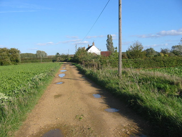 Cottages near Fotheringhay Lodge These cottages stand on the track leading to Fotheringhay Lodge. Just beyond the cottages once stood a railway station on the line between Peterborough and Oundle. As was often the case the station was a long way from the nearest villages; no trace of it remains.